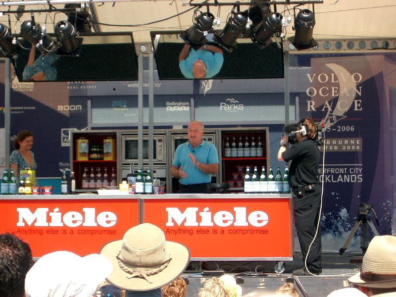 Rick Stein's cooking demonstration was more talk than action because of the strong winds blowing out the flame of the stove! [ Tastes of the Sea Waterfront City, Melbourne Docklands 21, 22 January 2006 Doors open: 11:00 am]